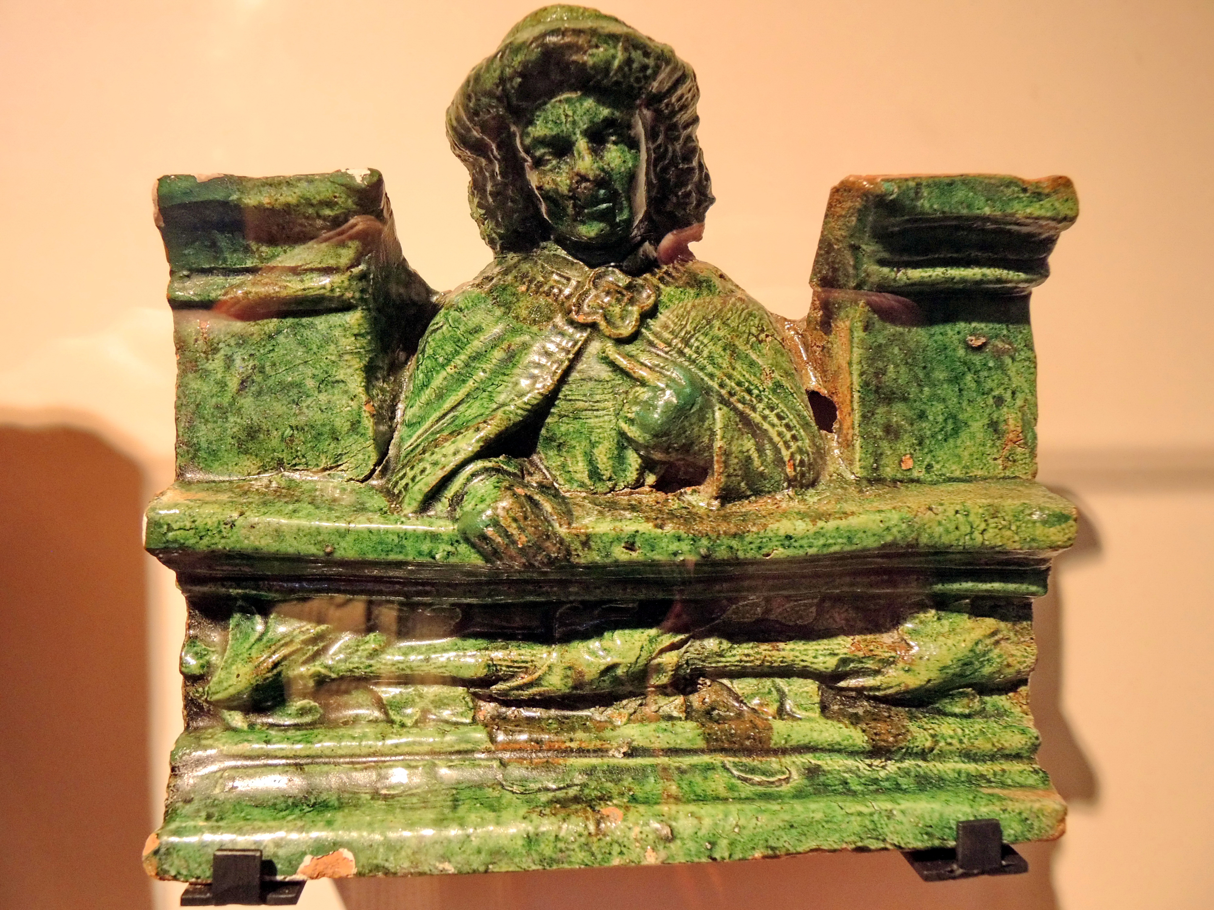 Collection of the Stadtmuseum in Rapperswil (Switzerland)